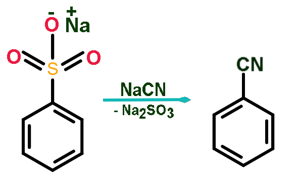 Benzonitrile synthesis from sodium benzenesufonate and sodium cyanide